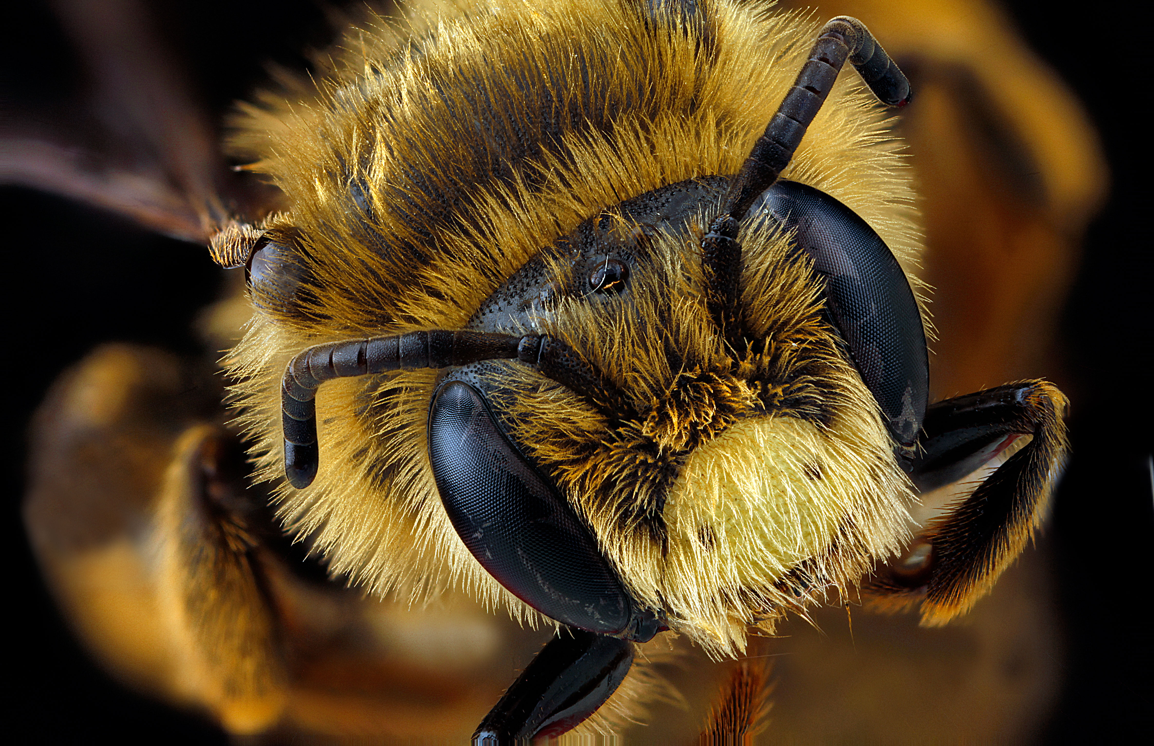 Andrena rudbeckiae, male, June, 2012 Kent County, Maryland